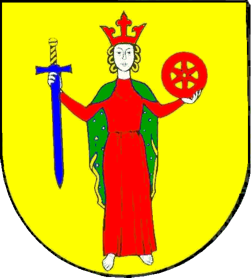 Coat of arms of the municipality Katharinenheerd in Schleswig-Holstein, Germany.